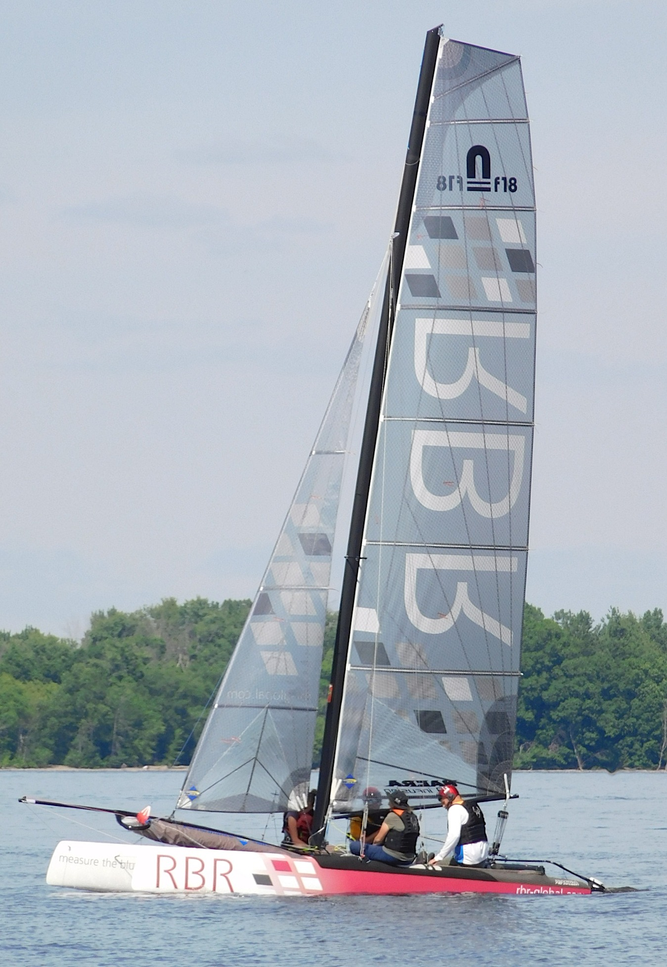 A Formula 18 catamaran.